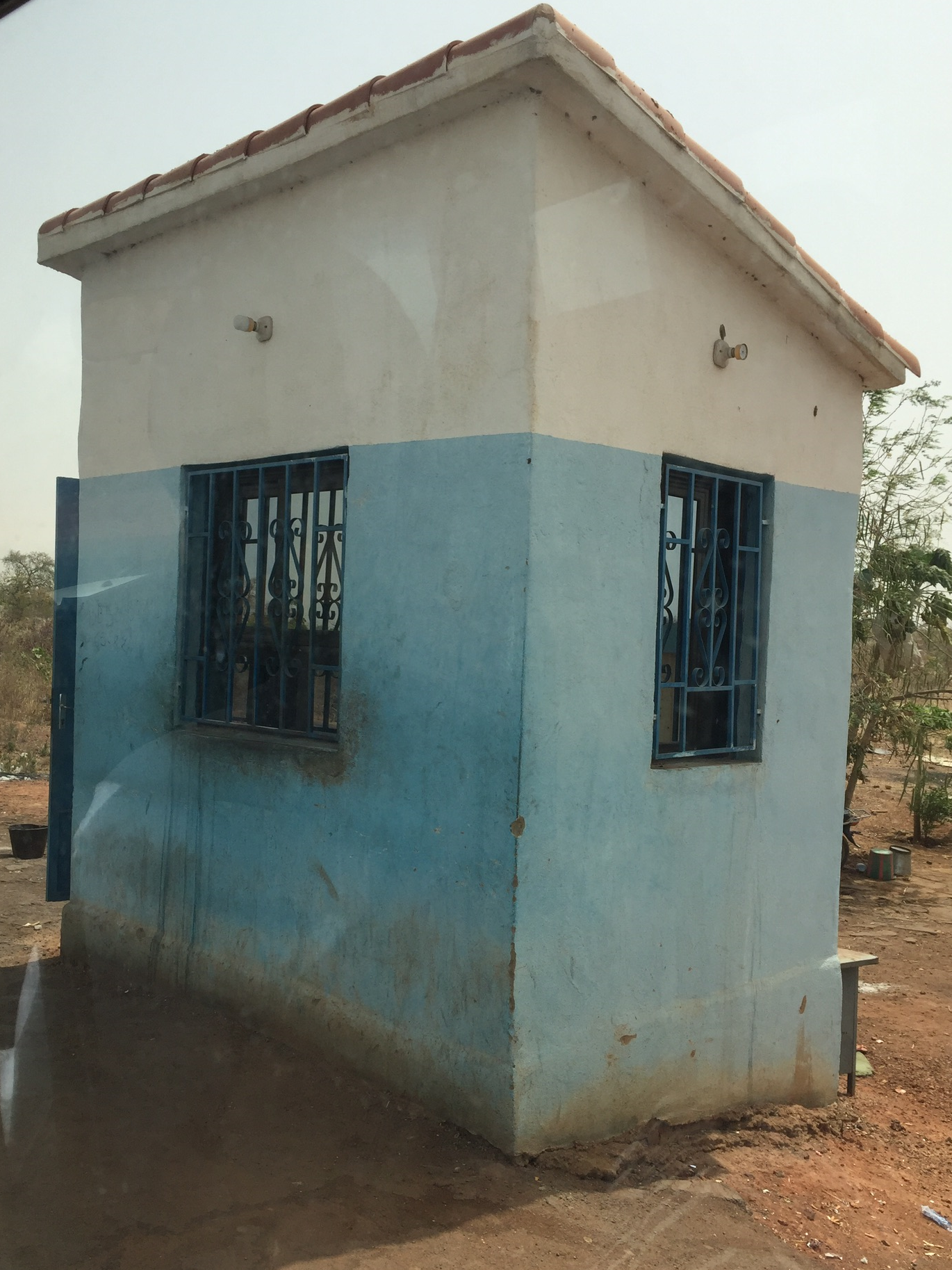 This is an image with the theme "Africa on the Move or Transport" from: Mali